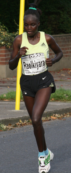 Nguriatukei Rael Kiyara and Helalia Johannes at the 15 mile mark (Fortfield Road) in the Dublin Marathon 2007.